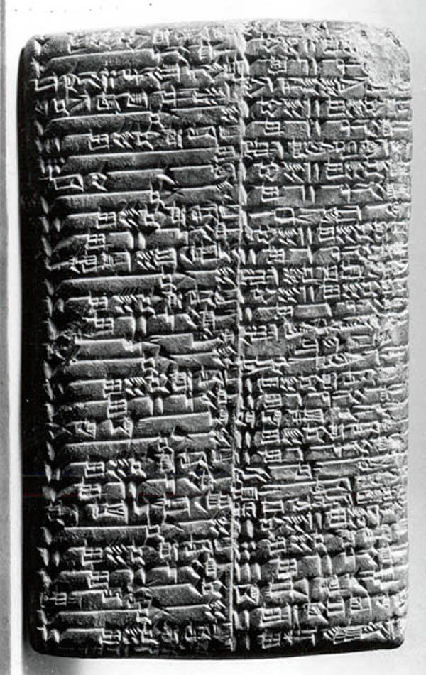 Neo-Sumerian; Cuneiform tablet; Clay-Tablets-Inscribed